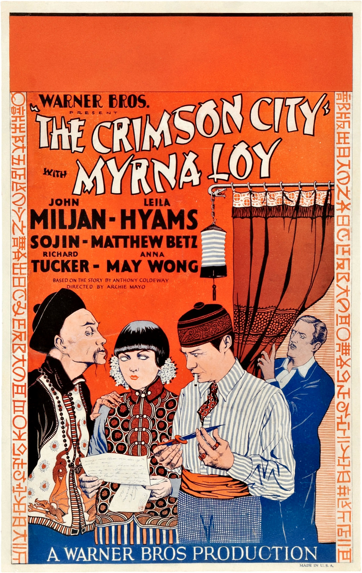 Poster for the 1928 film The Crimson City. The item has no copyright markings on it as can be seen in the links above. At lower right is Made in USA.